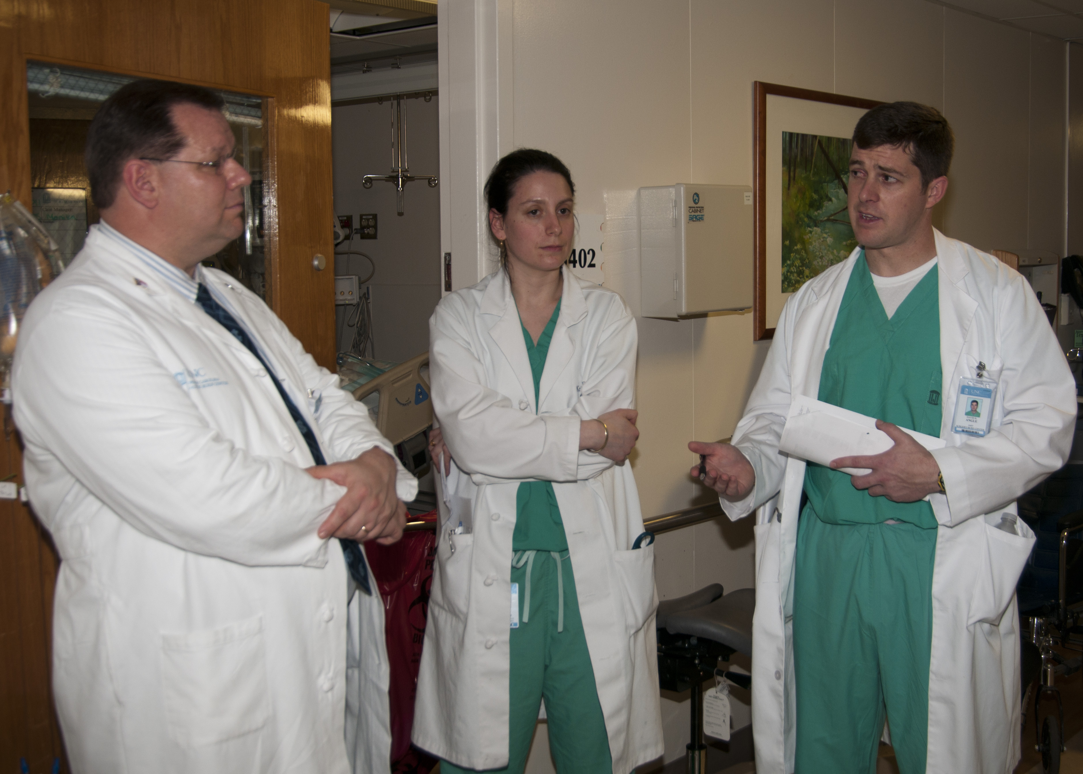 A U.S. Soldier with the Special Warfare Medical Group(Airborne), speaks to Dr. Bruce Cairns ,right, while conducting rounds alongside medical students, at the University of North Carolina's Jaycee Burn Clinic in Chapel Hill, N.C., Feb. 28, 2011. The sergeant, an instructor for the Special Warfare Medical Group(Airborne) at Fort Bragg, N.C., was conducting a refresher clinical rotation as part of the advanced medical instructor training program.